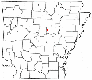 Adapted from Wikipedia's Arkansas counties map by ArkansasTraveler